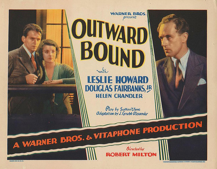 Title lobby card for the film Outward Bound